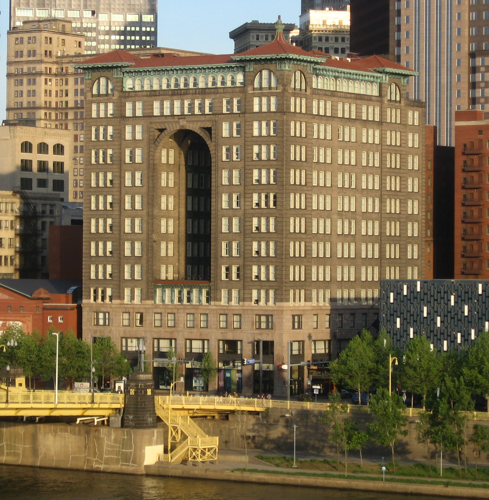 Northern side of the Fulton Building (now the Byham Theater), located at 107 Sixth Street in downtown Pittsburgh, Pennsylvania, United States. Photo is taken from PNC Park on the other side of the Allegheny River; the southern end of the Roberto Clemente Bridge is visible on the left edge of the photo. Built in 1906, the Fulton Building is listed on the National Register of Historic Places.